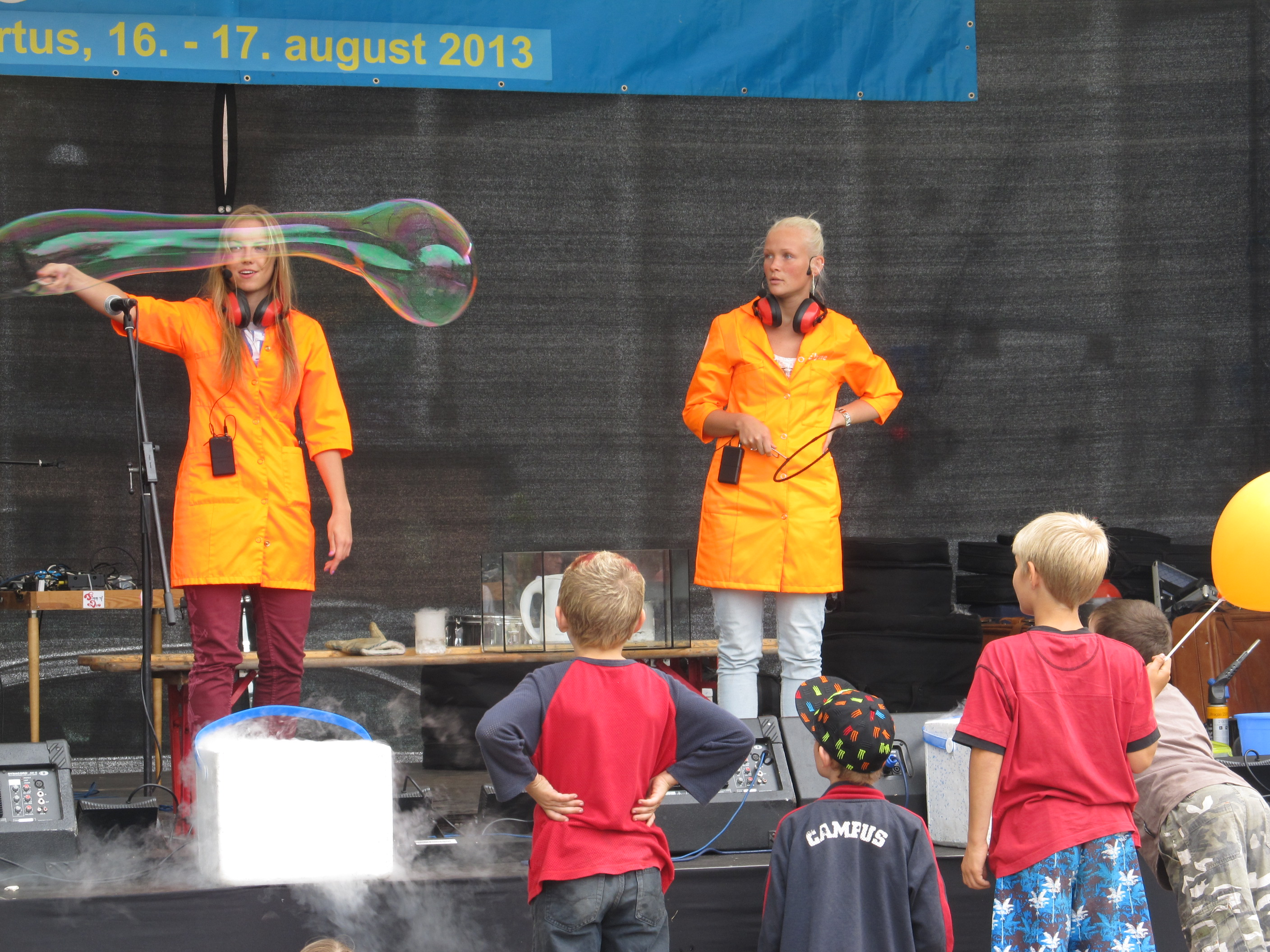 Seebimullikatse AHHAA teadusteatris Emajõe Festivalil 2013